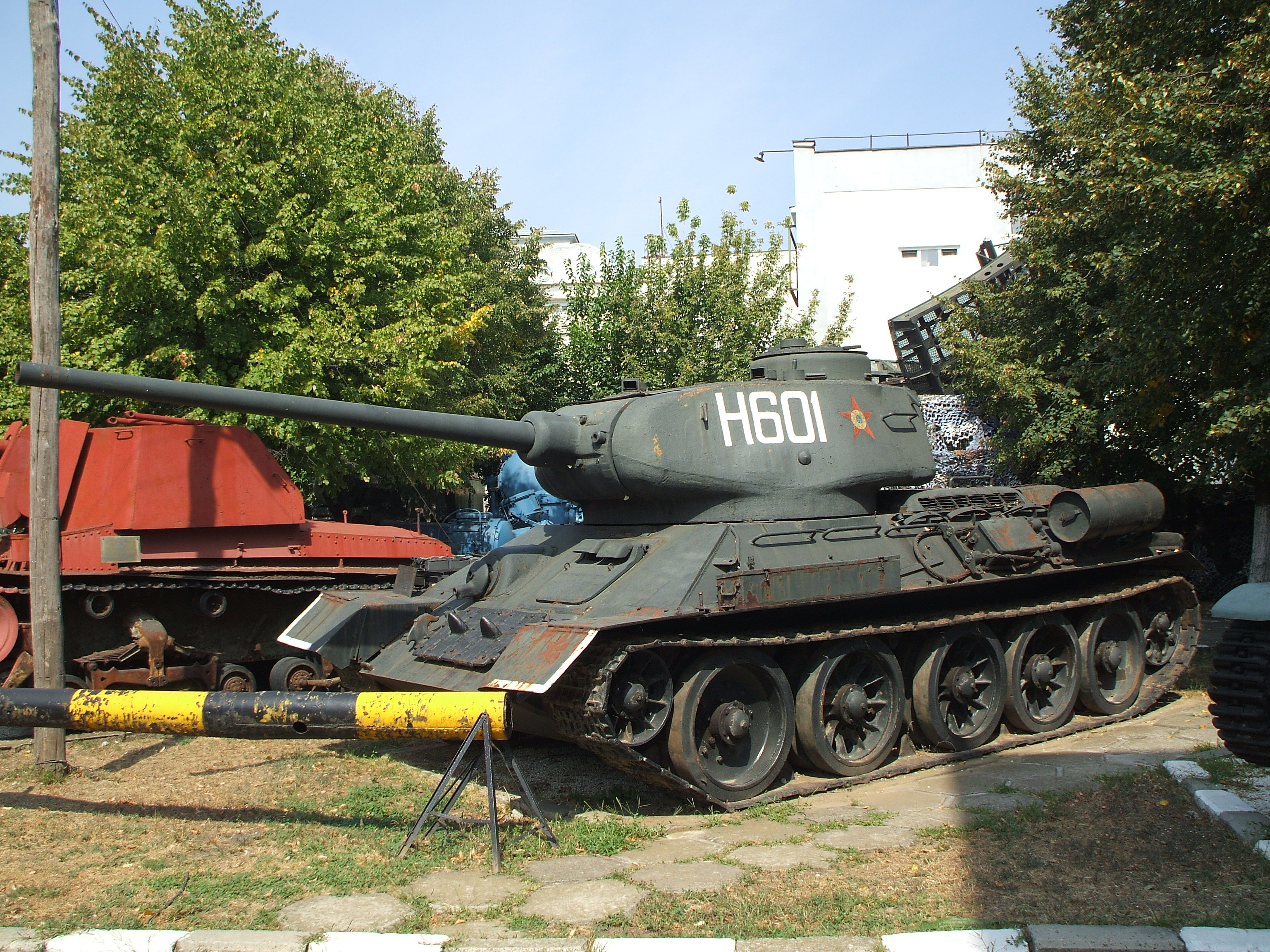 A T-34/85 tank with Romanian markings at King Ferdinand National Military Museum.